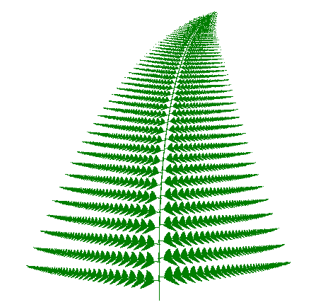 Barnsley's fern illustrates the use of affine translations in an iterated function system (IFS) to create a fractal. This version has been created with the Barnsley transformation formula, but with a different coefficient matrix, resulting in longer leaflets, or pinnas. The parameters for this image are: 0 0 0 .25 0 -.4 .02 .95 .005 -.005 .93 -.002 .5 .84 .035 -.2 .16 .04 -.09 .02 .07 -.04 .2 .16 .04 .083 .12 .07